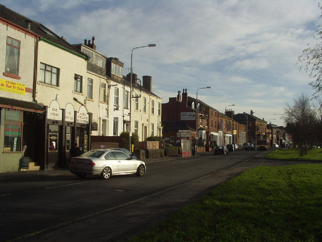 Burley Road from Woodsley Road junction, Leeds. Looking east along Burley Road, from the pavement opposite the junction with Woodsley Road